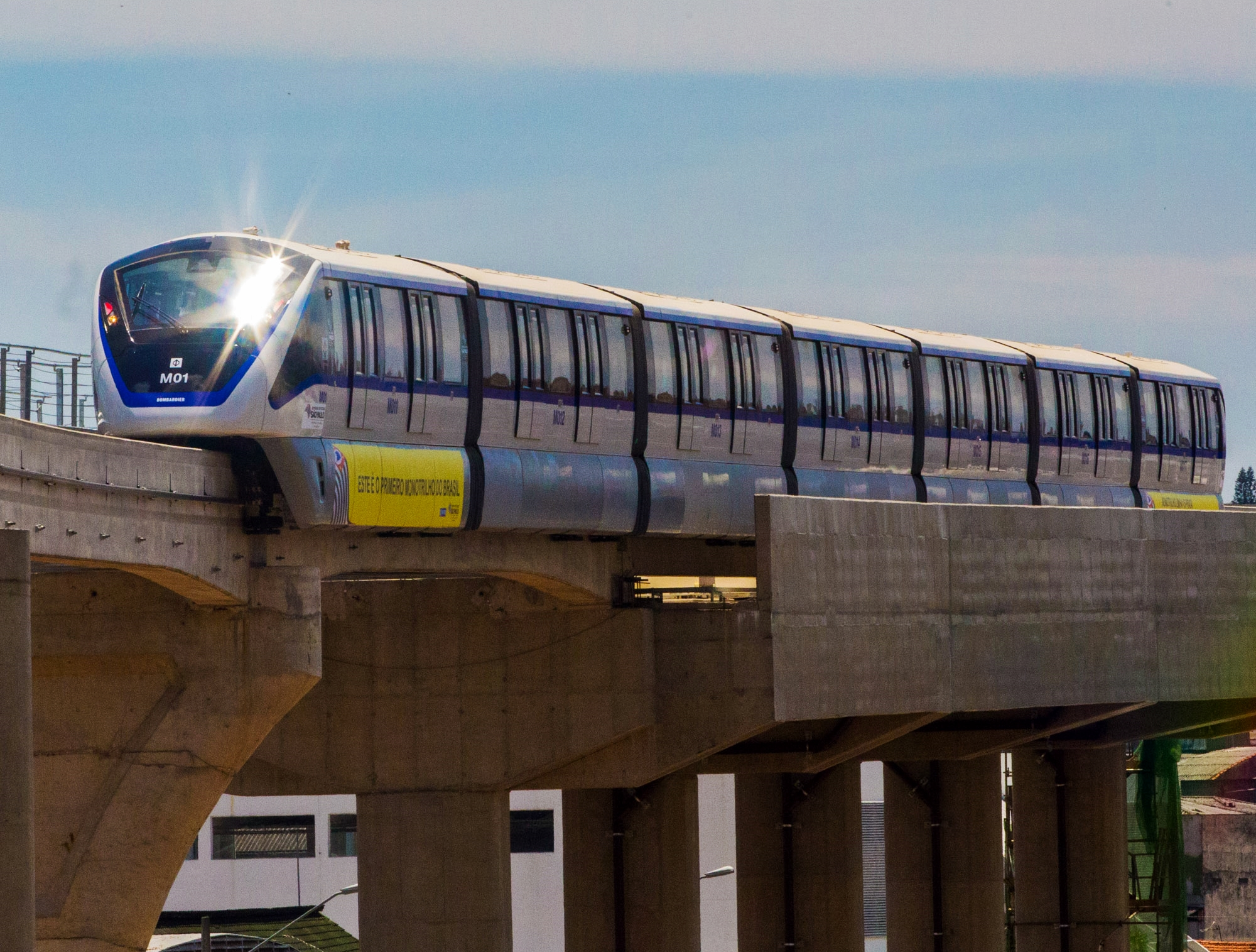 Foi realizada na manhã de sexta-feira (10) uma viagem experimental do monotrilho da linha 15 Prata do Metrô de São Paulo. Foram percorridos 600 metros entre a futura estação Oratório e o Pátio Oratório. DATA: 10/01/2014 LOCAL: São Paulo/SPFOTO: GUILHERME LARA CAMPOS/A2 FOTOGRAFIA